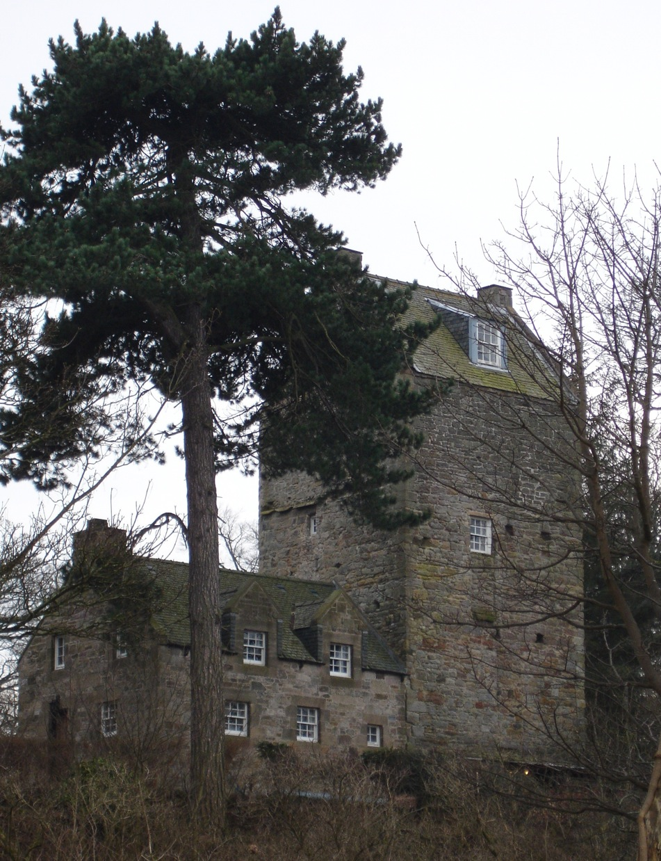 Cramond Tower, Cramond, Edinburgh